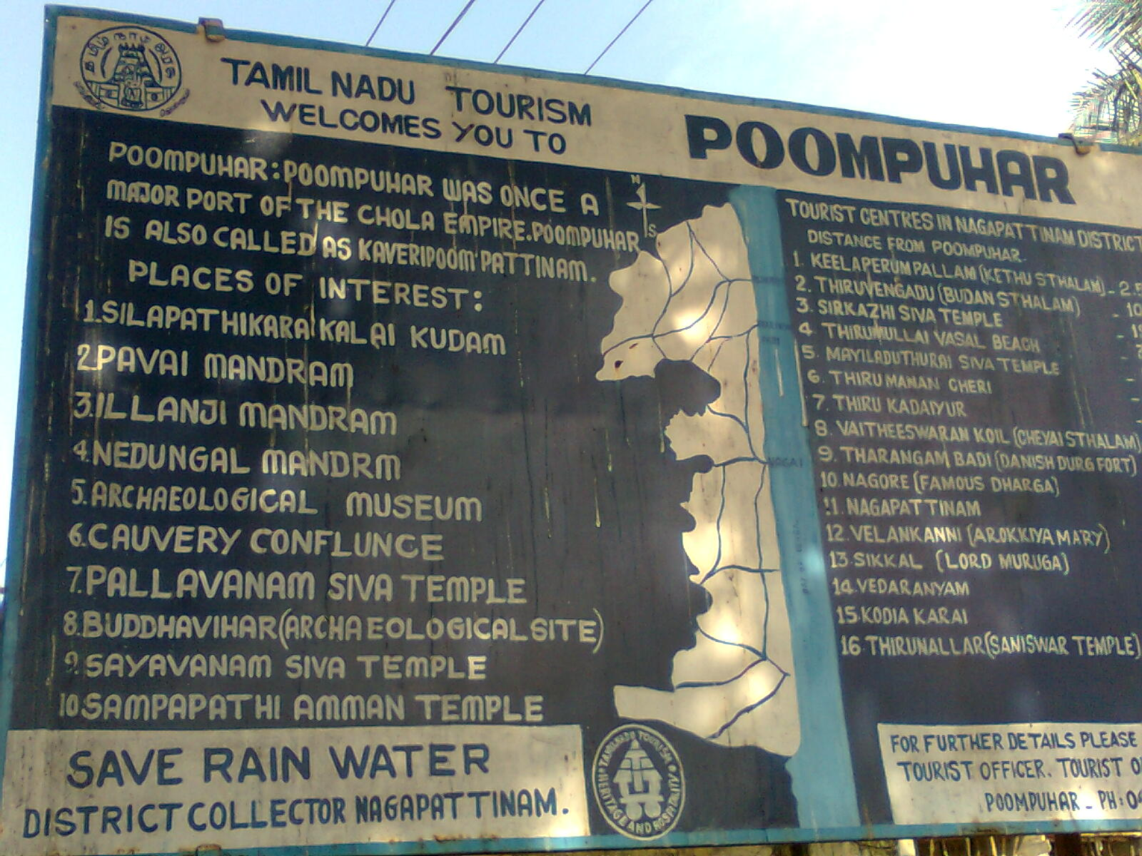 Sign Board in Pumpuhar